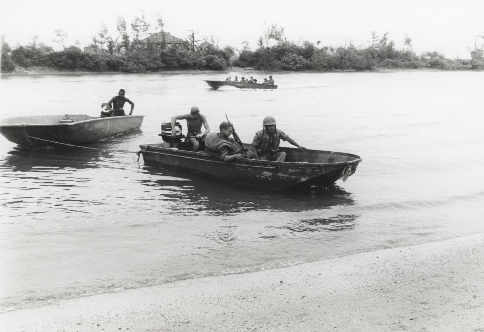 2/4 Marines patrol the Cua Viet River near Dong Ha